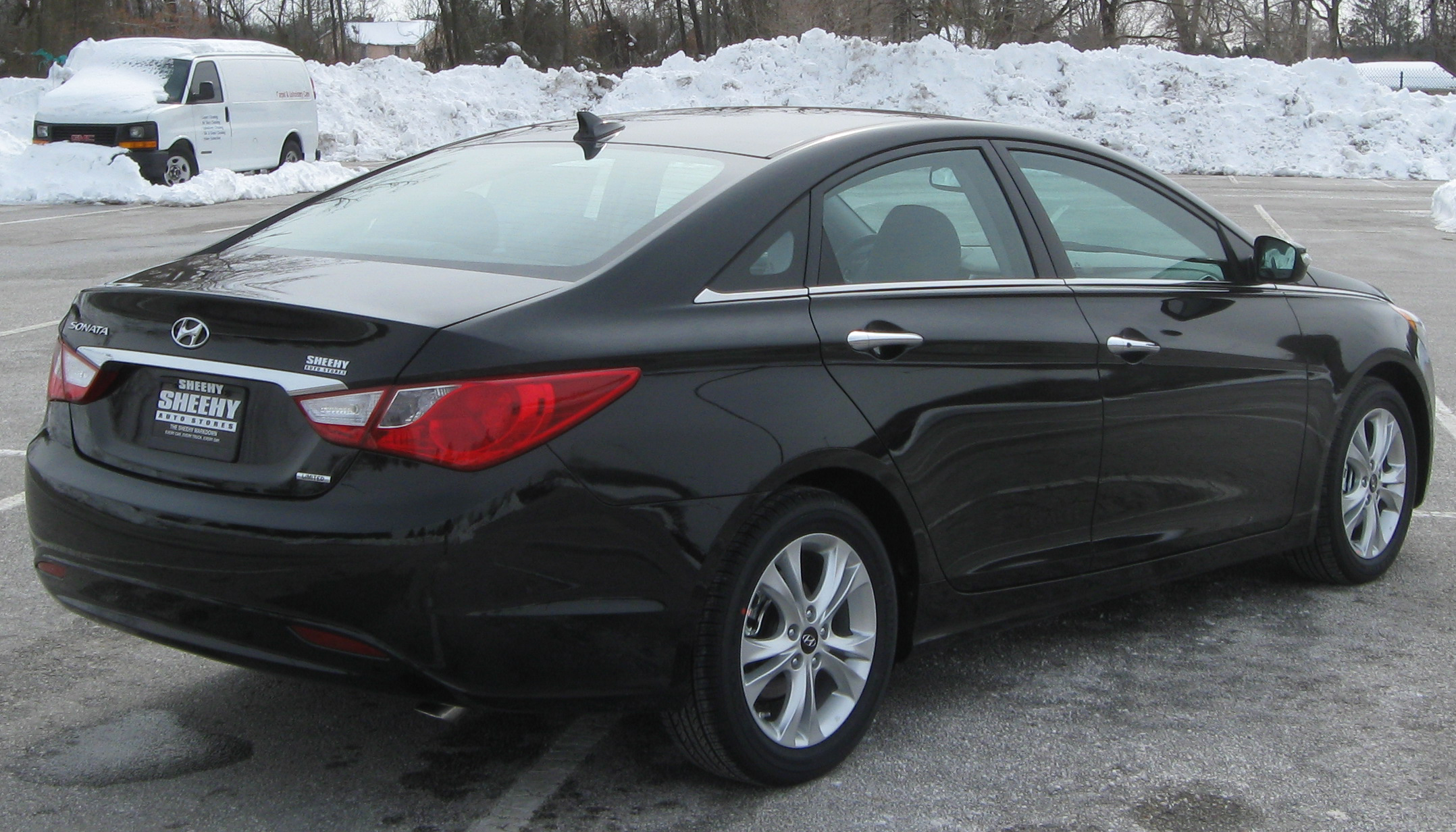 2011 Hyundai Sonata Limited photographed in Waldorf, Maryland, USA.